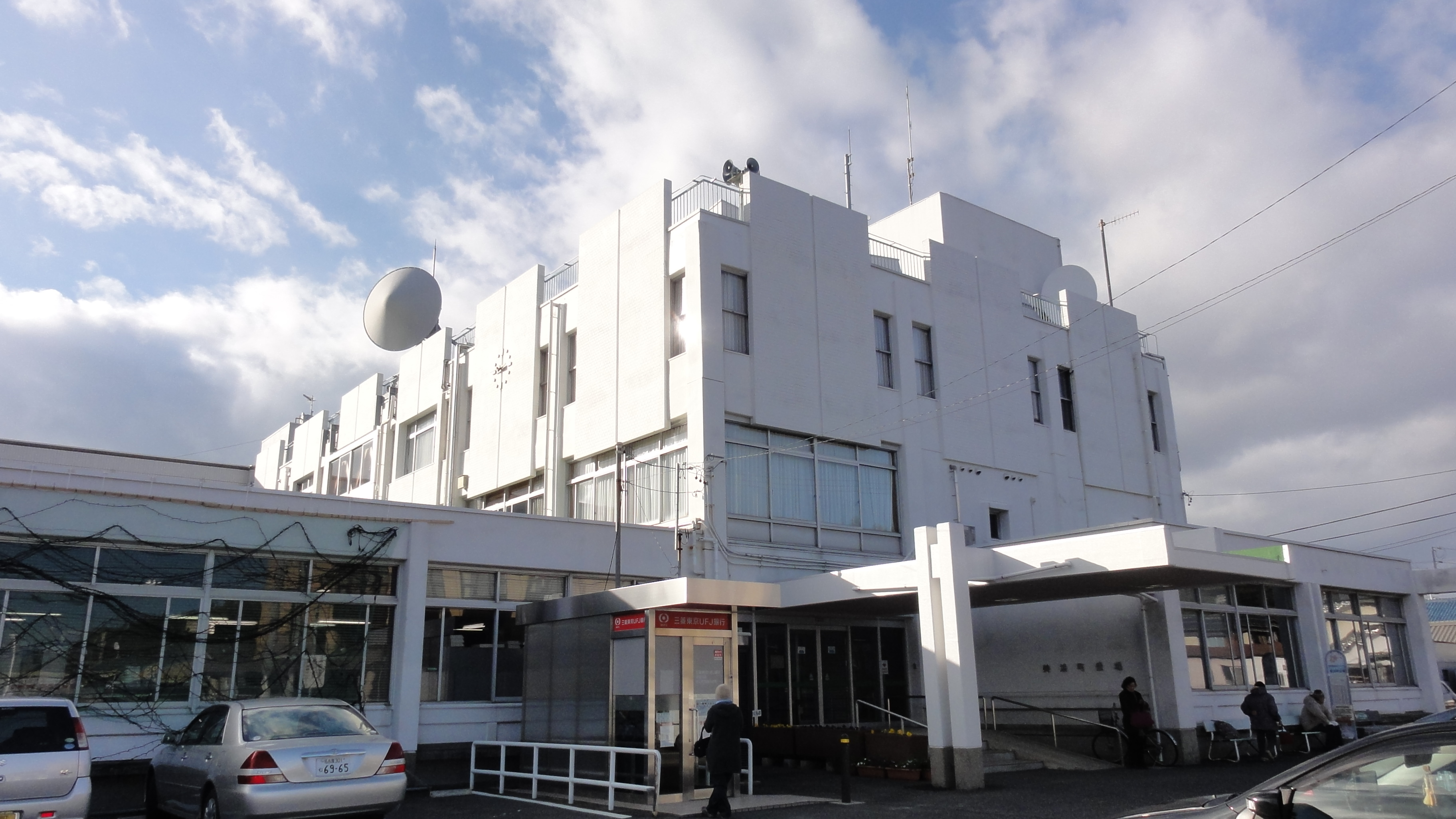 Mihama town office,Aichi prefecture,Japan